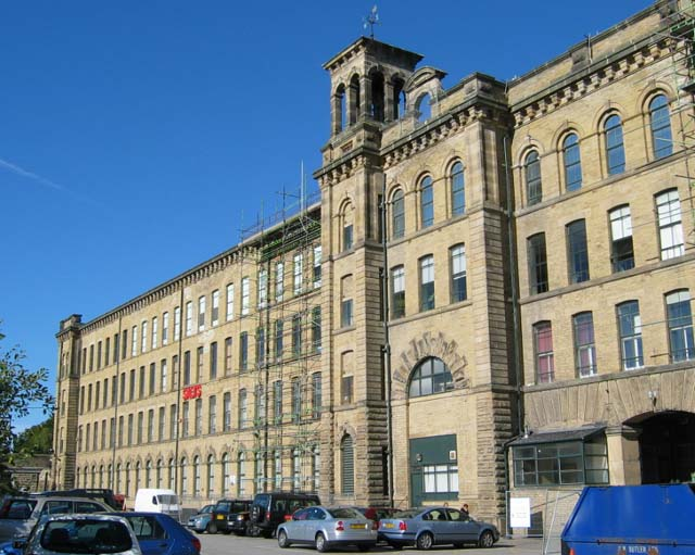 Salts Mill, Saltaire When this was built it was at the cutting edge of the technology of its period, now it has been redeveloped and houses a gallery of David Hockney's work, restaurant and shops including Kath Libbert Jewellery - she has recently staged an exhibition of contemporary jewellery celebrating the history of the building